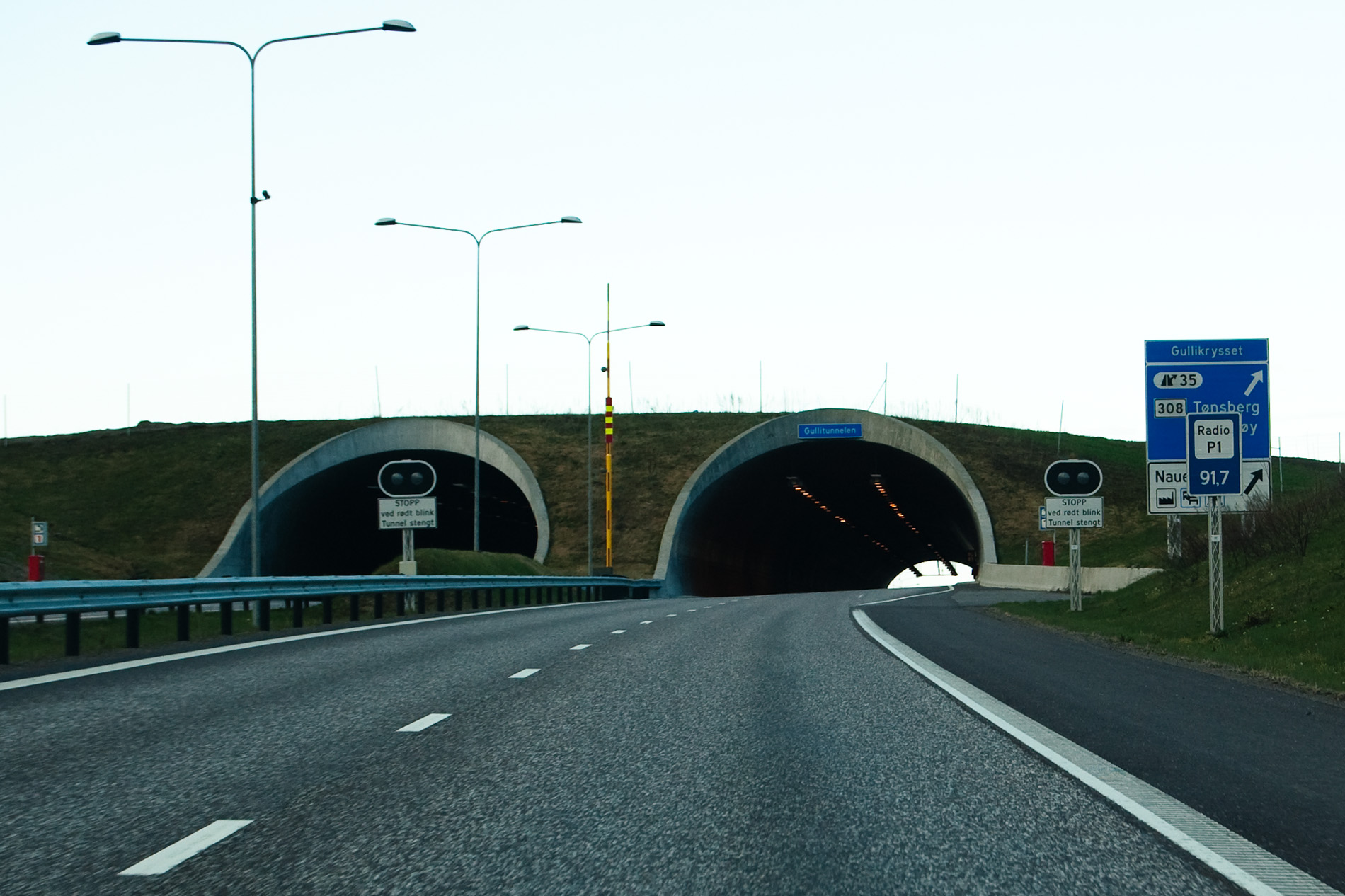 The Gulli tunnel seen from northeast, E18, Tønsberg, Vestfold, Norway